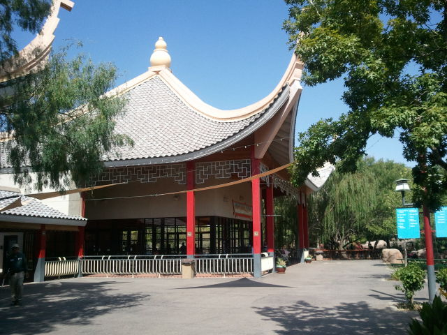 Asia exibit entrance at El Paso Zoo